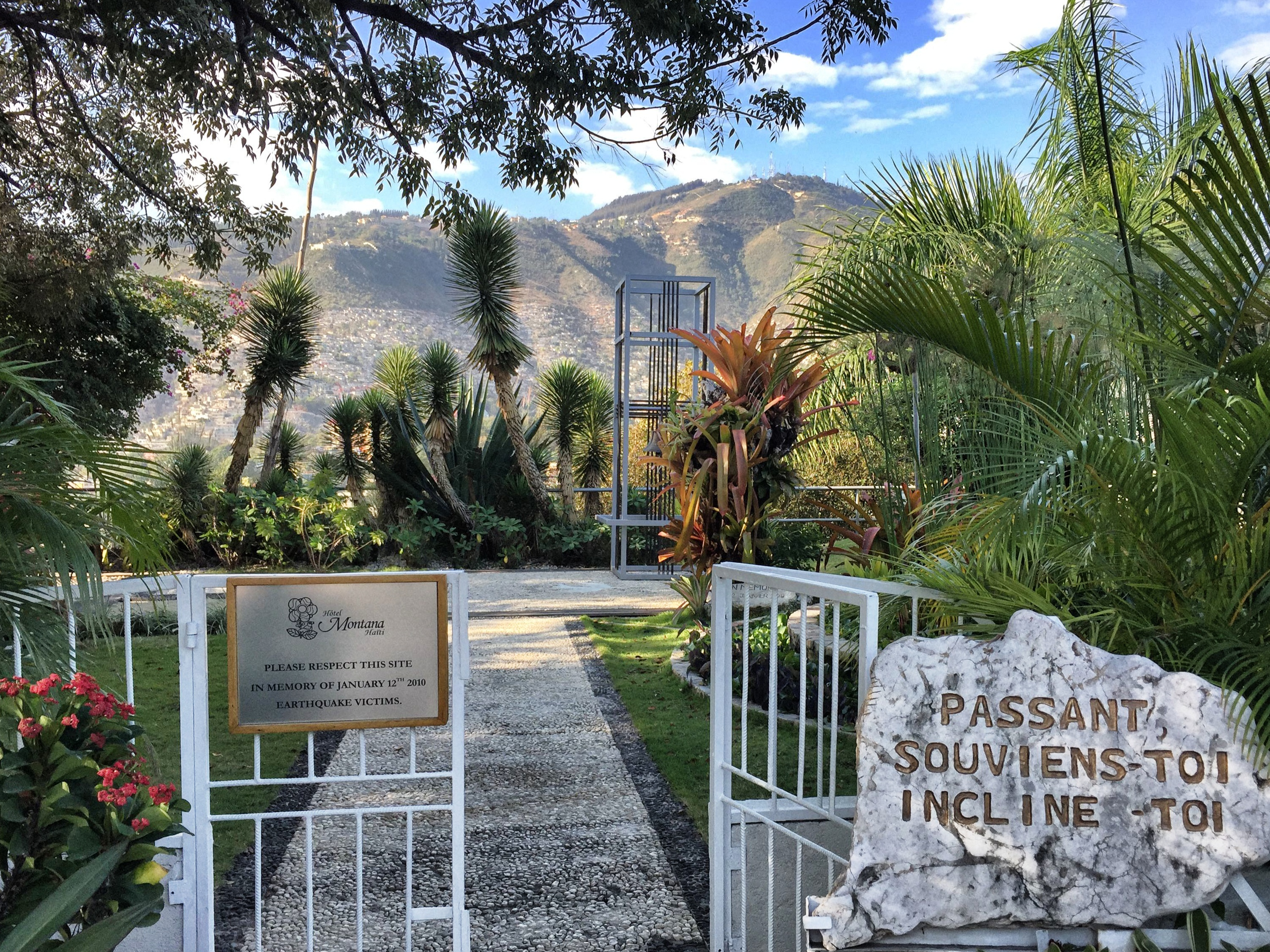 Memorial garden at Hotel Montana Haiti